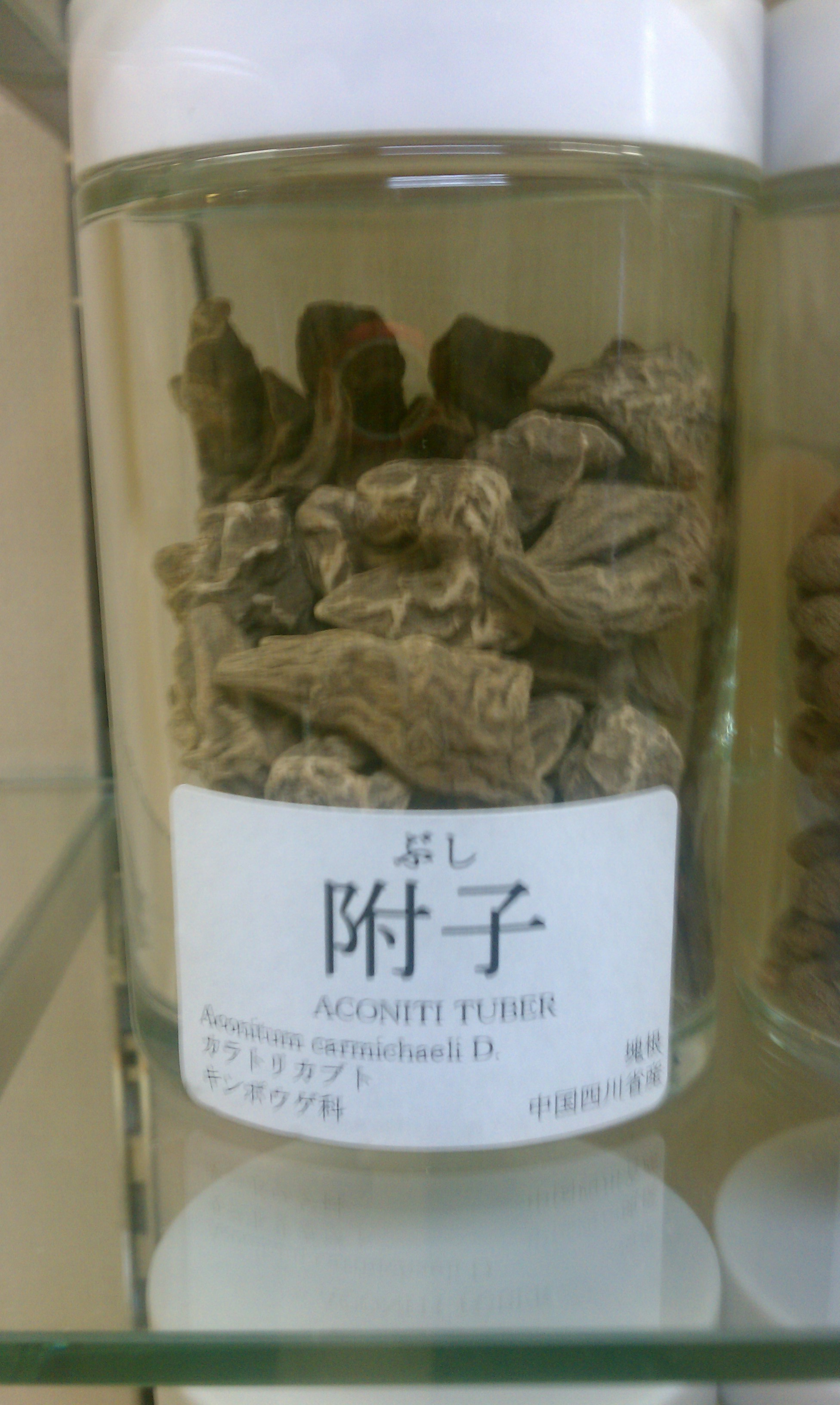 Aconitum use chinese treditional medicine